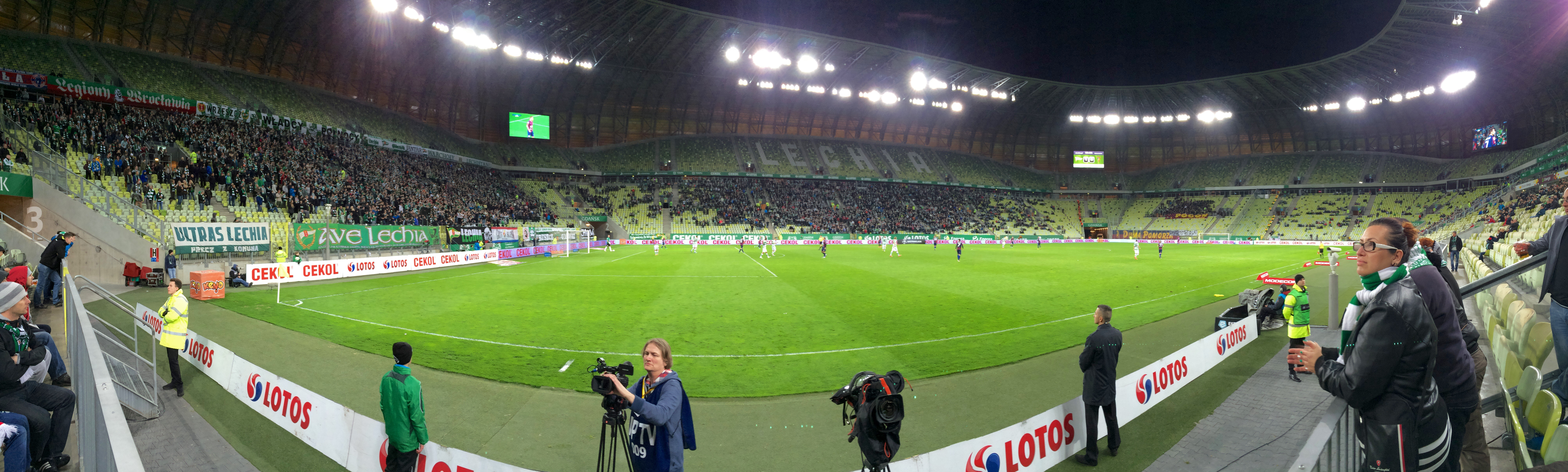 Stadion Energa Gdańsk during Lechia Gdańsk football game.